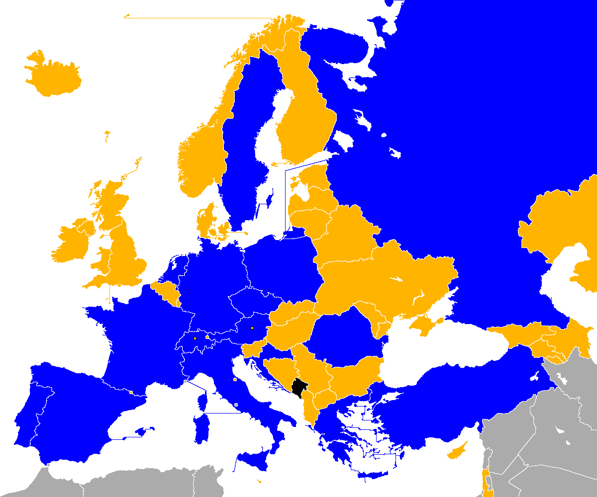 Euro 2008 qualifiers